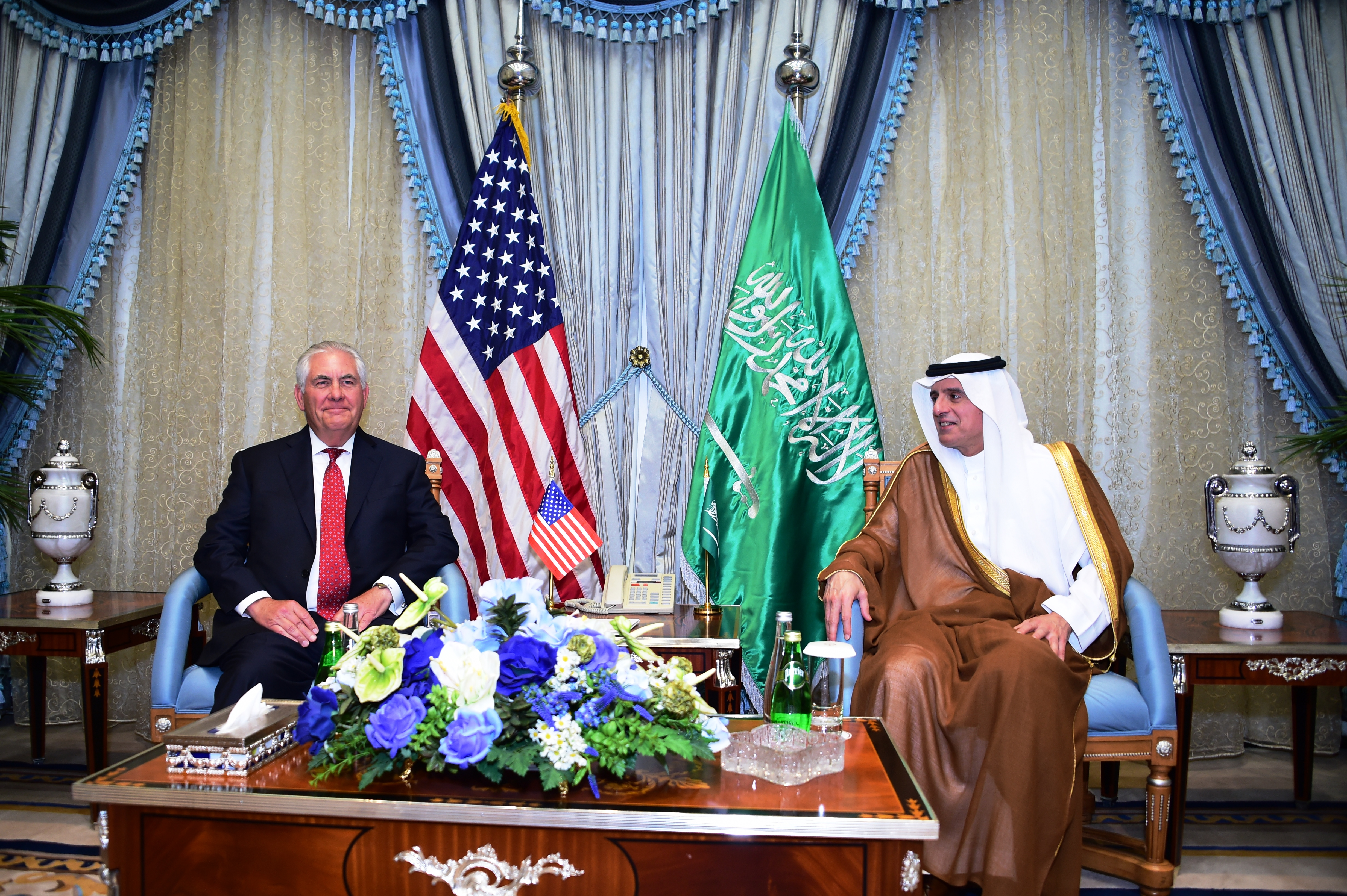 U.S. Secretary of State Rex Tillerson meets with Saudi Foreign Minister Adel al-Jubeir in Jeddah, Saudi Arabia, to discuss ongoing efforts to resolve the Gulf dispute, on July 12, 2017. [State Department photo/ Public Domain]